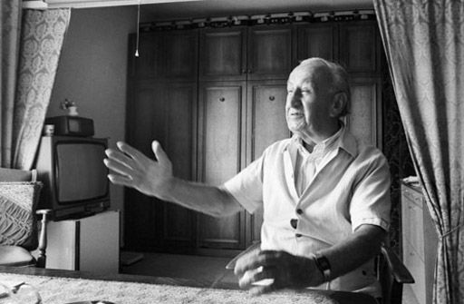 Resident of a nursing home in Munich (Germany)